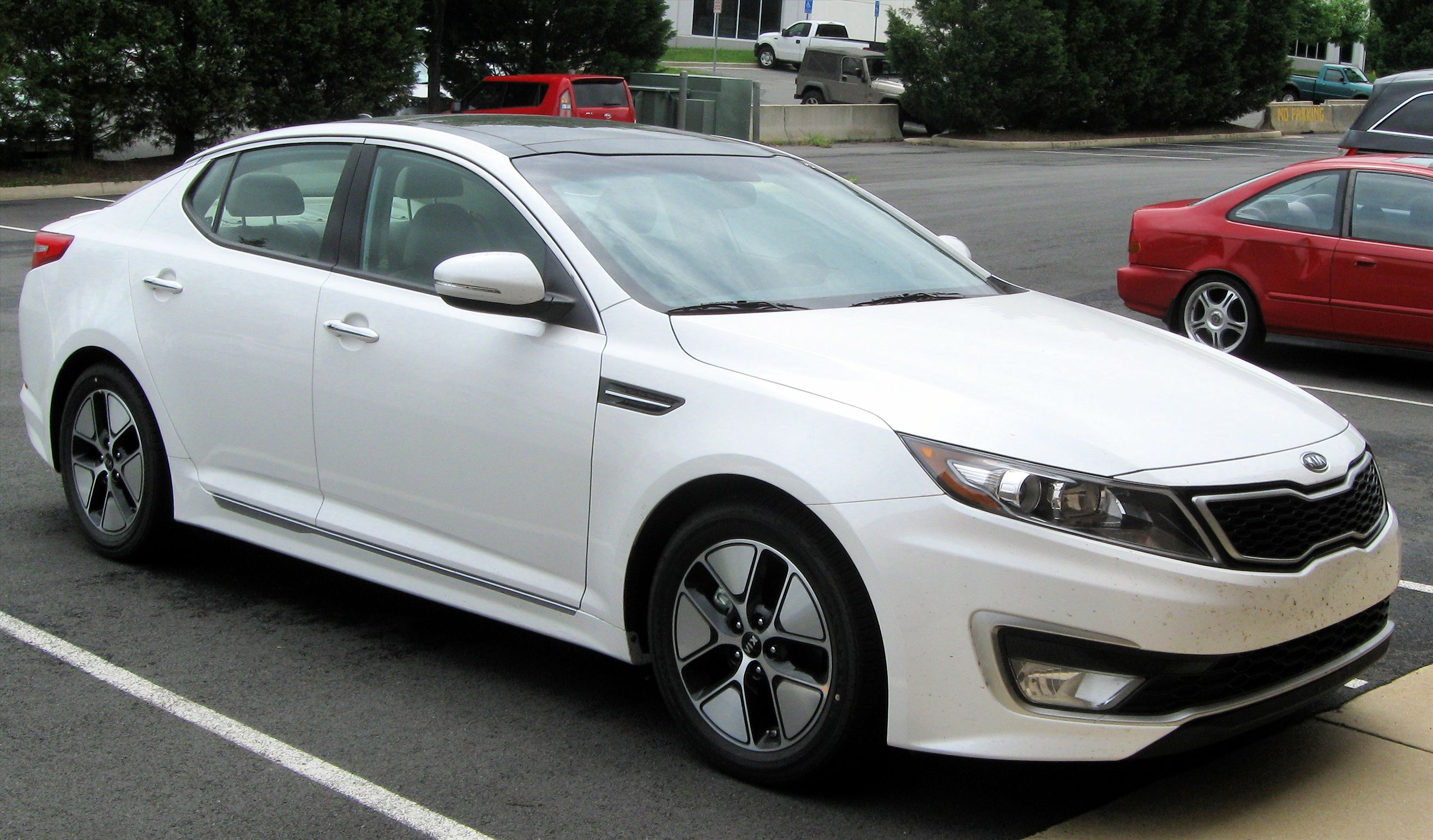 2011 Kia Optima photographed in Chantilly, Virginia, USA.